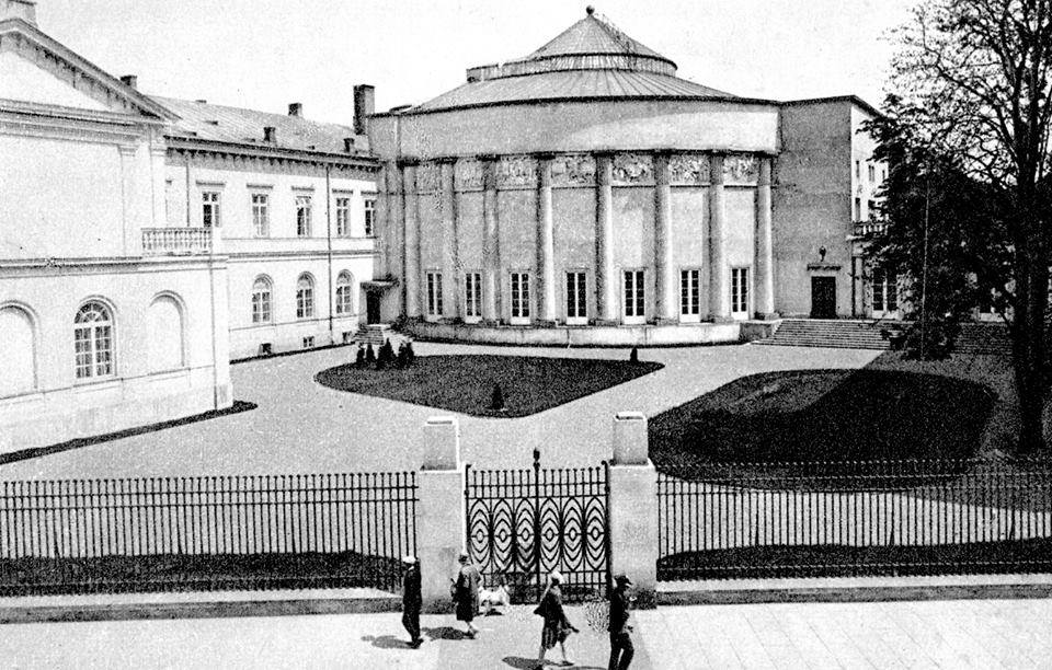 Building of Polish Parliament (Sejm & Senate) 1930